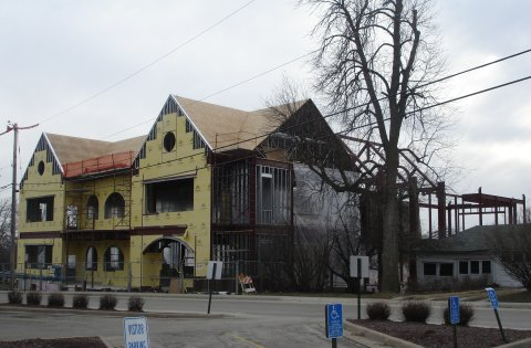 The new Myers Teaching and Administrative Center at the University of Dubuque, under construction in this March 2006 photograph that I took. Jesster79 00:02, 12 March 2006 (UTC)